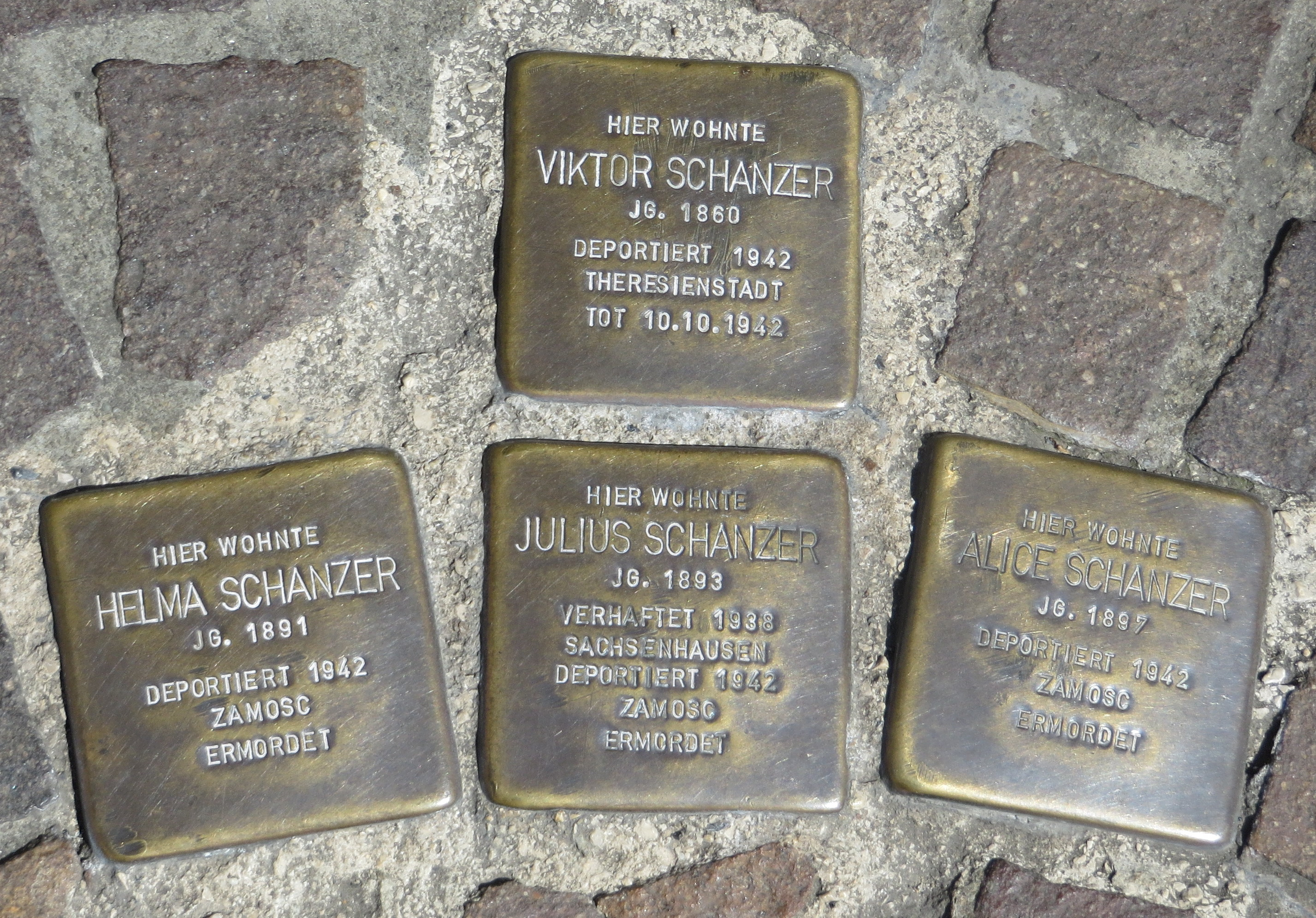 Stolpersteine for Family Schanzer in Dortmund, GermanyEsperanto: Stumbligaj ŝtonetoj pri Familio Schanzer en Dortmund, Germanio